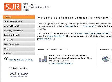 Portal SCImago Journal & Country Rank